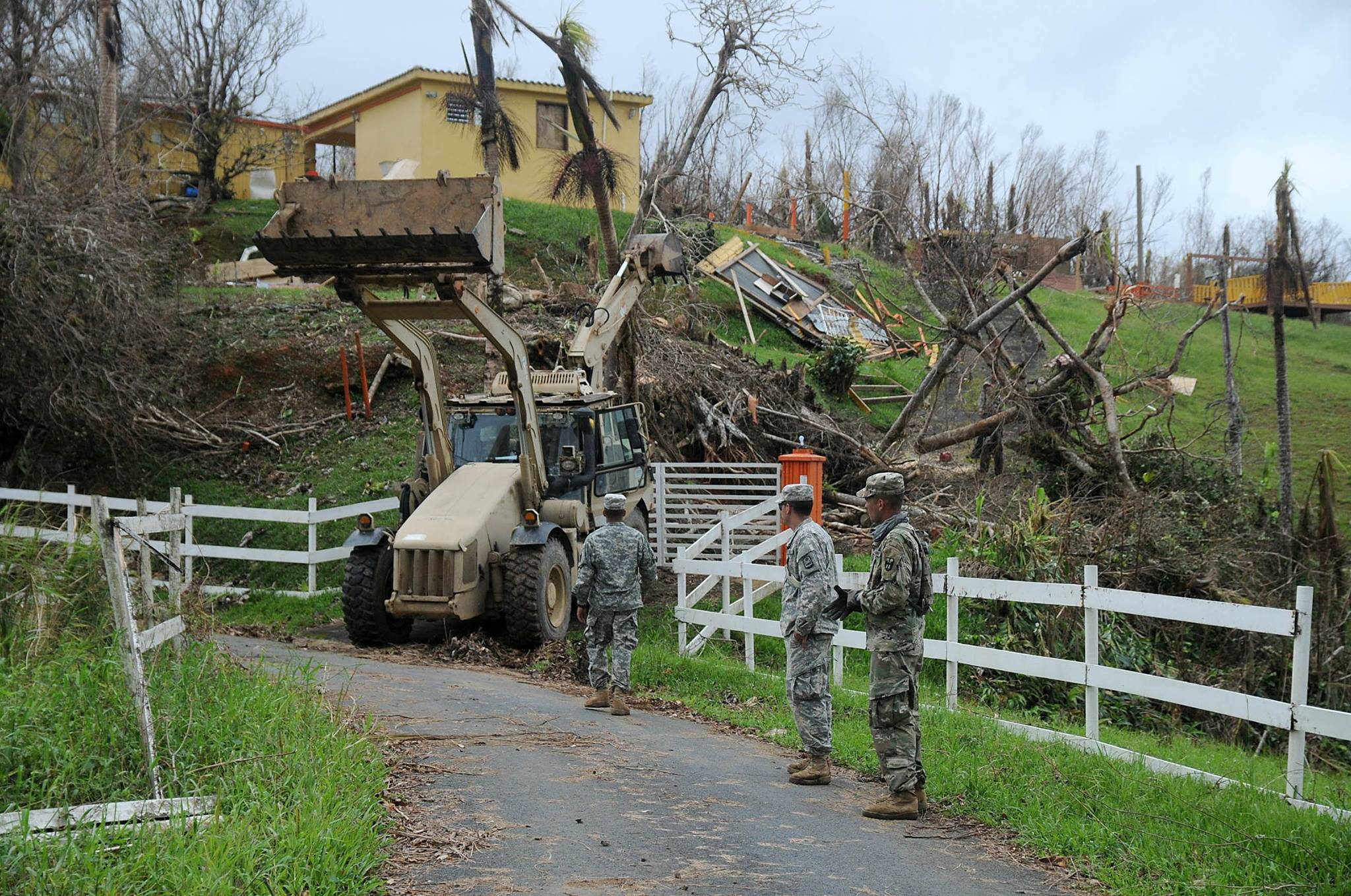 Citizen Soldiers of the 190th Engineer Battalion, 101st Troop Command, Puerto Rico Army National Guard, alongside residents of the municipality of Cayey, conduct a route clearing mission after the destruction left by Hurricane Maria through the region, Sep. 30. The Soldiers and the community came together to clear the road that leads to homes and the location of a Doppler radar in the area. Fallen trees, power lines and debris kept the community isolated for days until the 190th showed to open the roads for free access. (Puerto Rico Army National Guard photo by Staff Sgt. Wilma Orozco Fanfan, 113th MPAD)